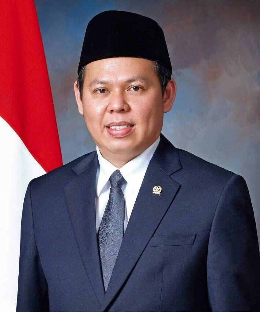 Sultan Bachtiar Najamudin, Deputy Chair of the Regional Representative Council of the Republic of Indonesia for the period 2019-2024.